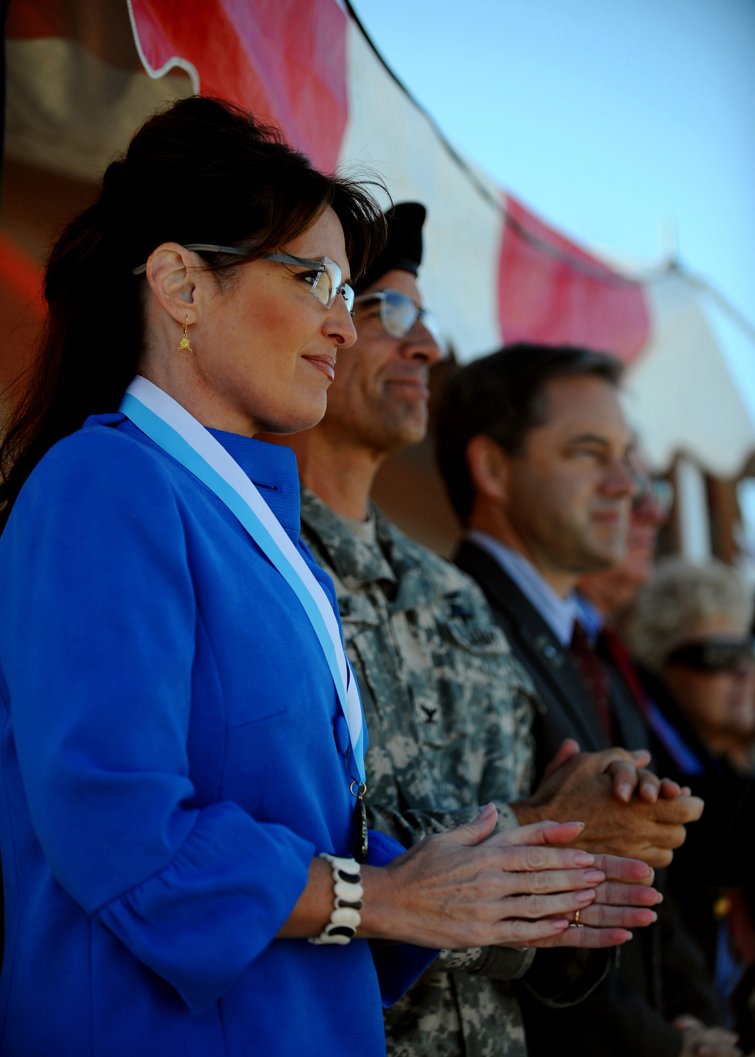 Alaska Governor Sarah Palin applauds for the 1st Stryker Brigade Combat Team, 25th Infantry Division in their deployment ceremony Sept. 11, 2008. Gov. Palins' son is one of the Soldiers deploying.